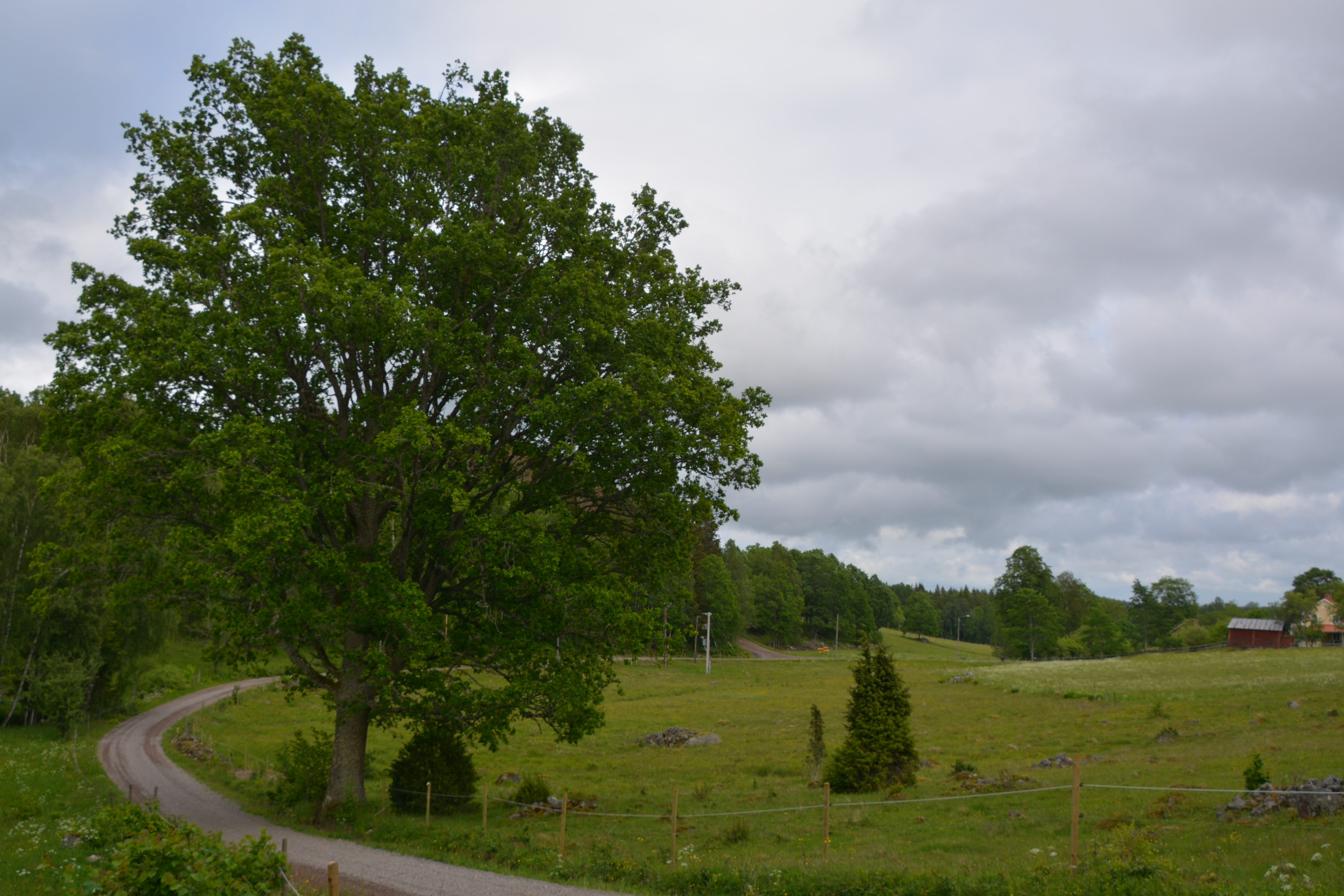 Högeruda, Vetlanda kommun